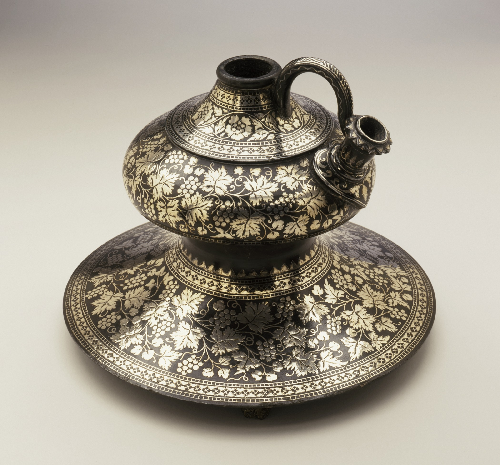 India, Andhra Pradesh, Hyderabad, circa 1775-1800 Tools and Equipment; hookahs Bidri ware (tarkashi and tehnishan techniques) 6 1/4 x 8 in. (15.88 x 20.32 cm) Southern Asian Art Council (M.2001.101) South and Southeast Asian Art